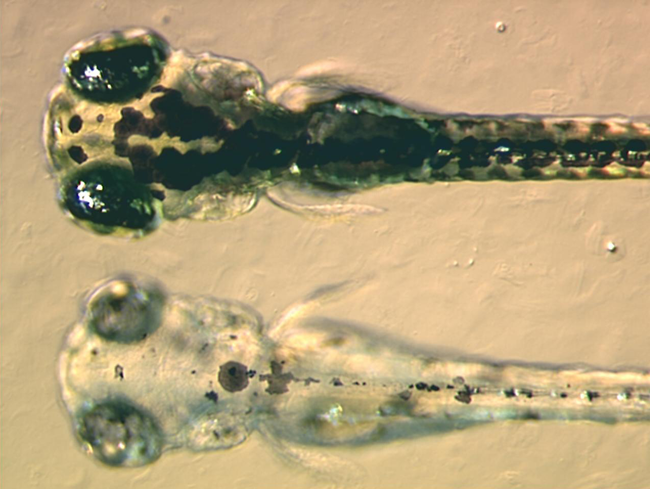 A Zebrafish Pigment Mutant. The mutant called bleached blond was produced by insertional mutagenesis. The embryos in the picture are four days old. At the top is a wild-type embryo, below is the mutant. The mutant lacks black pigment in the melanocytes because it fails to synthesise melanin properly.